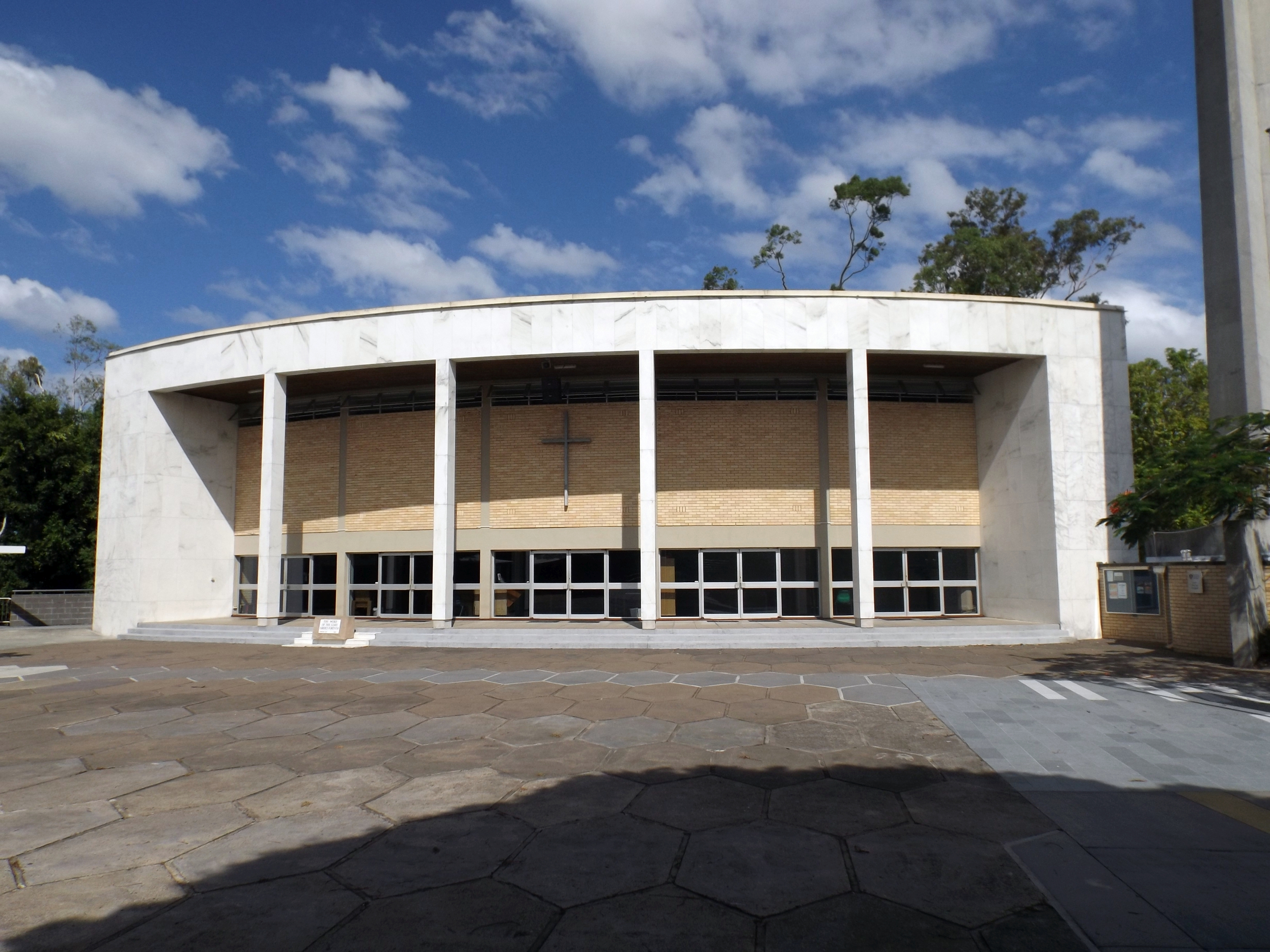 Photo of the front of the Chapel of St Peter's Lutheran College in Indooroopilly, Brisbane, Queensland, Australia.